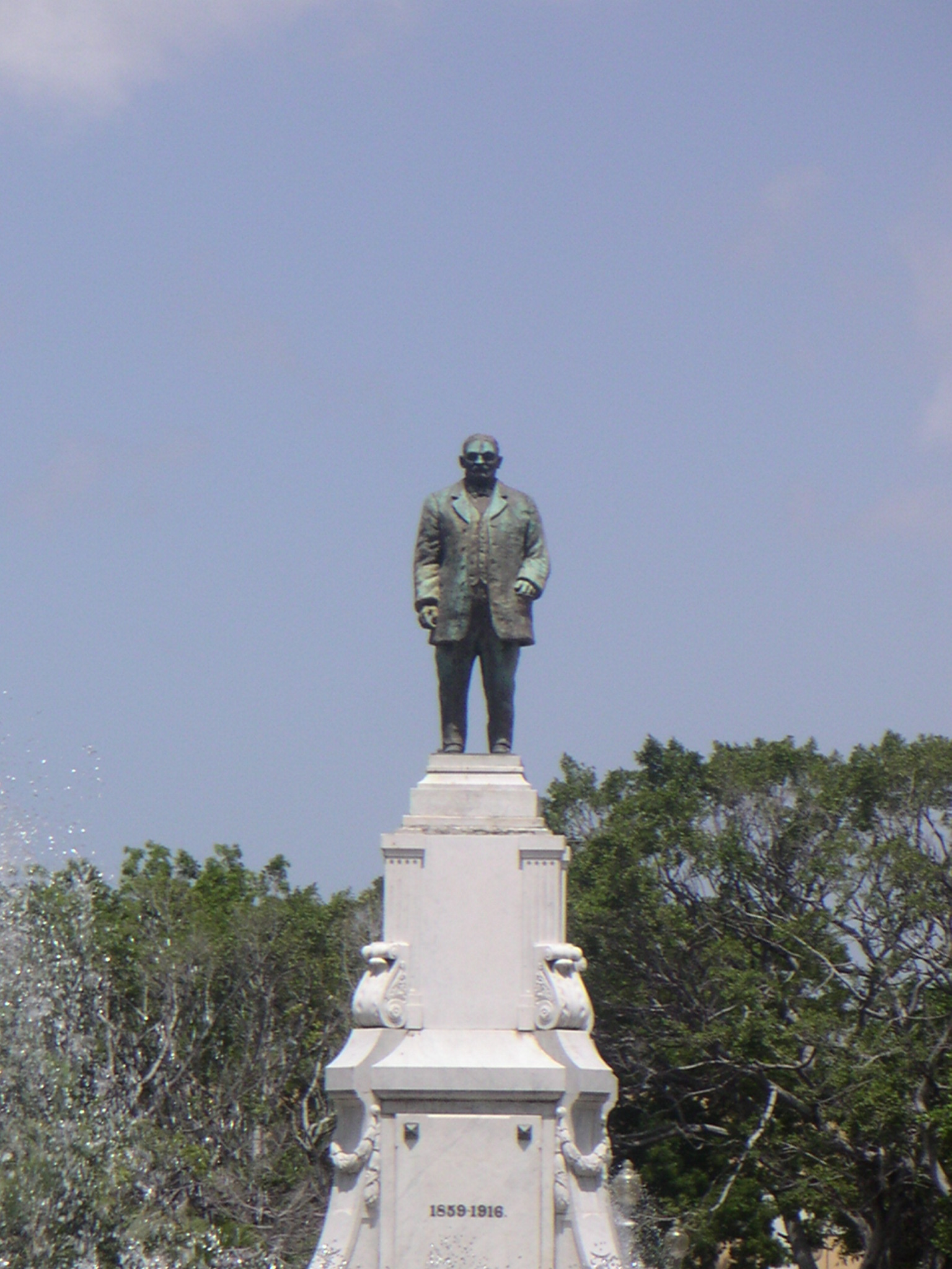 Statue of Luis Muñoz Rivera in Plaza Las Delicias, Ponce, Puerto Rico